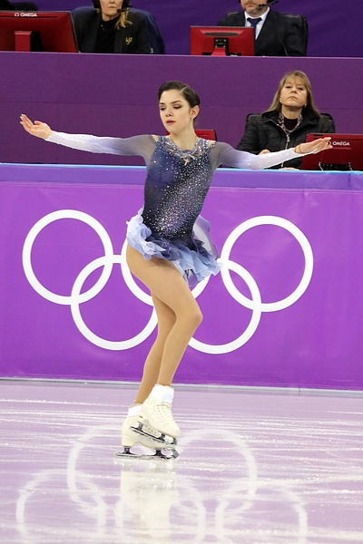 Evgenia Medvedeva at the 2018 Winter Olympic Games - Short program